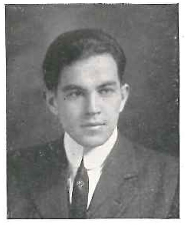 Class Photo of Richard Mortimer Bates, Jr. Architecture